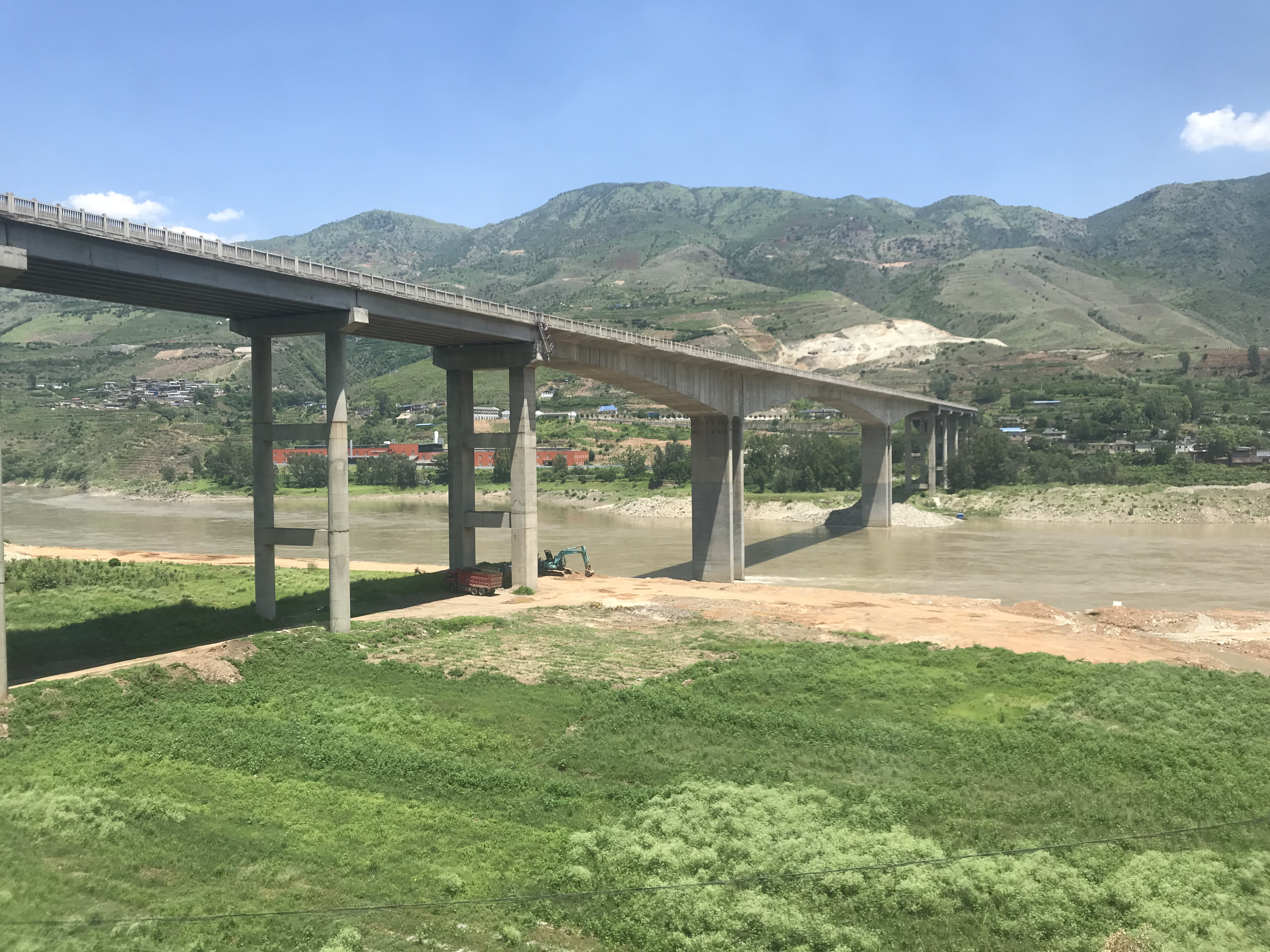 201908 Yuzha Bridge of G108